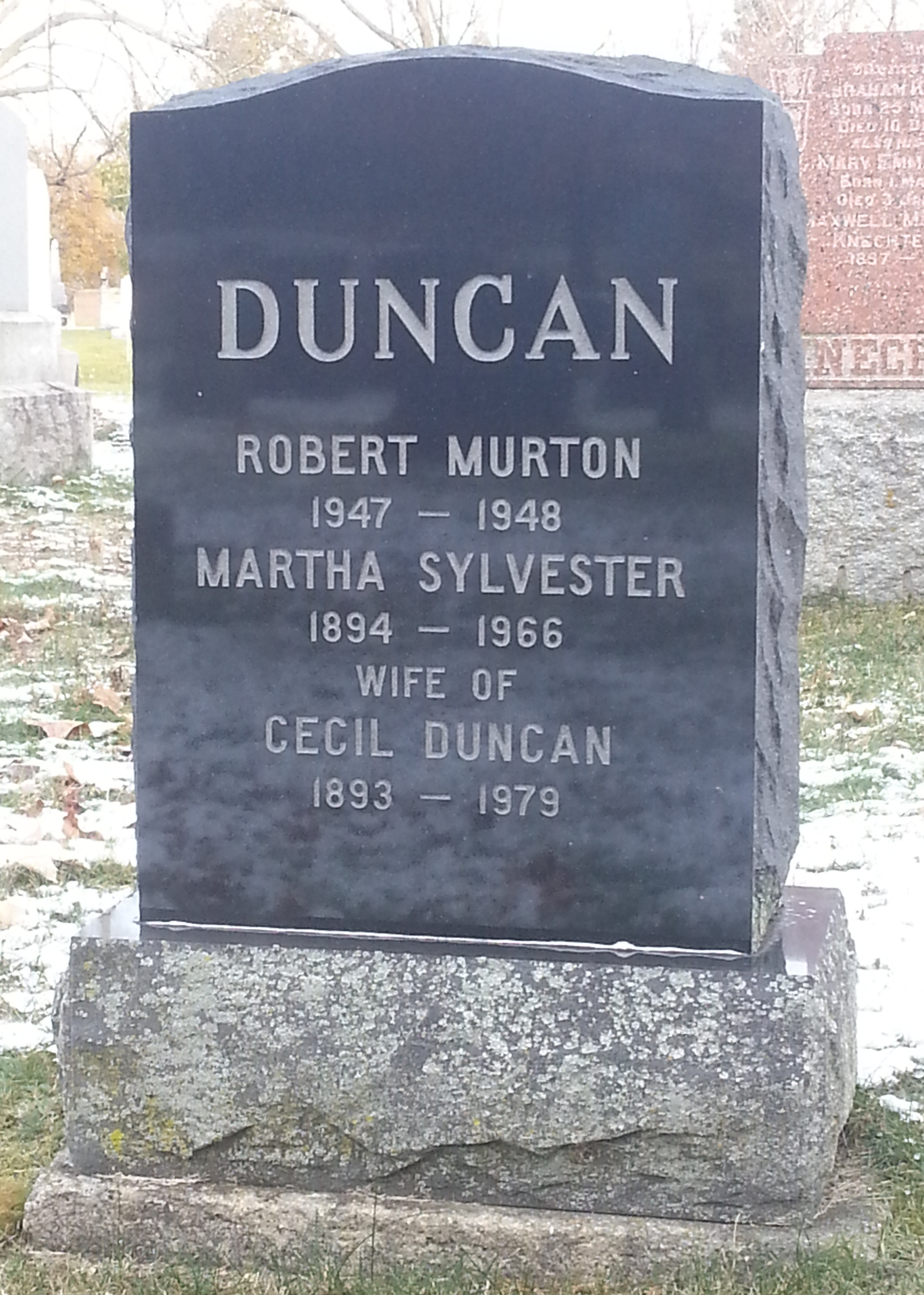 Cecil Duncan grave stone